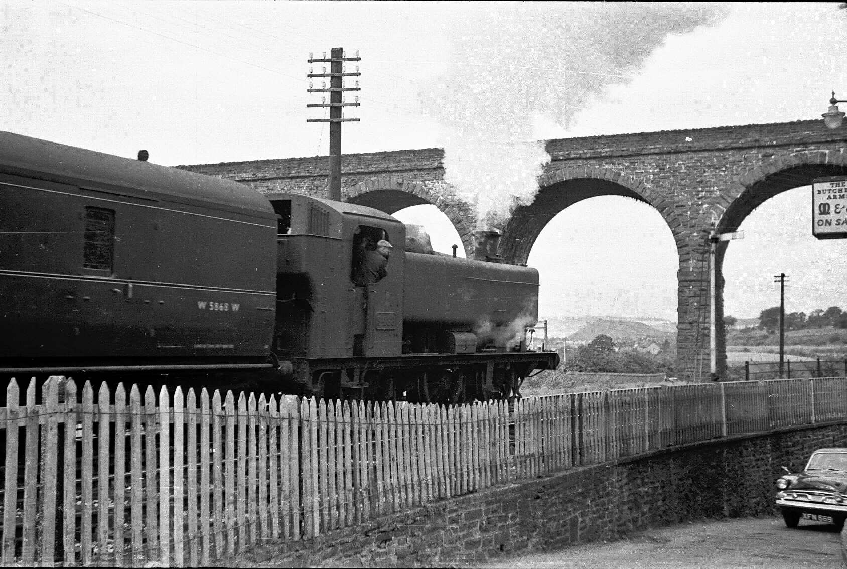 Maesycwmmer station, 3 Sept 1962